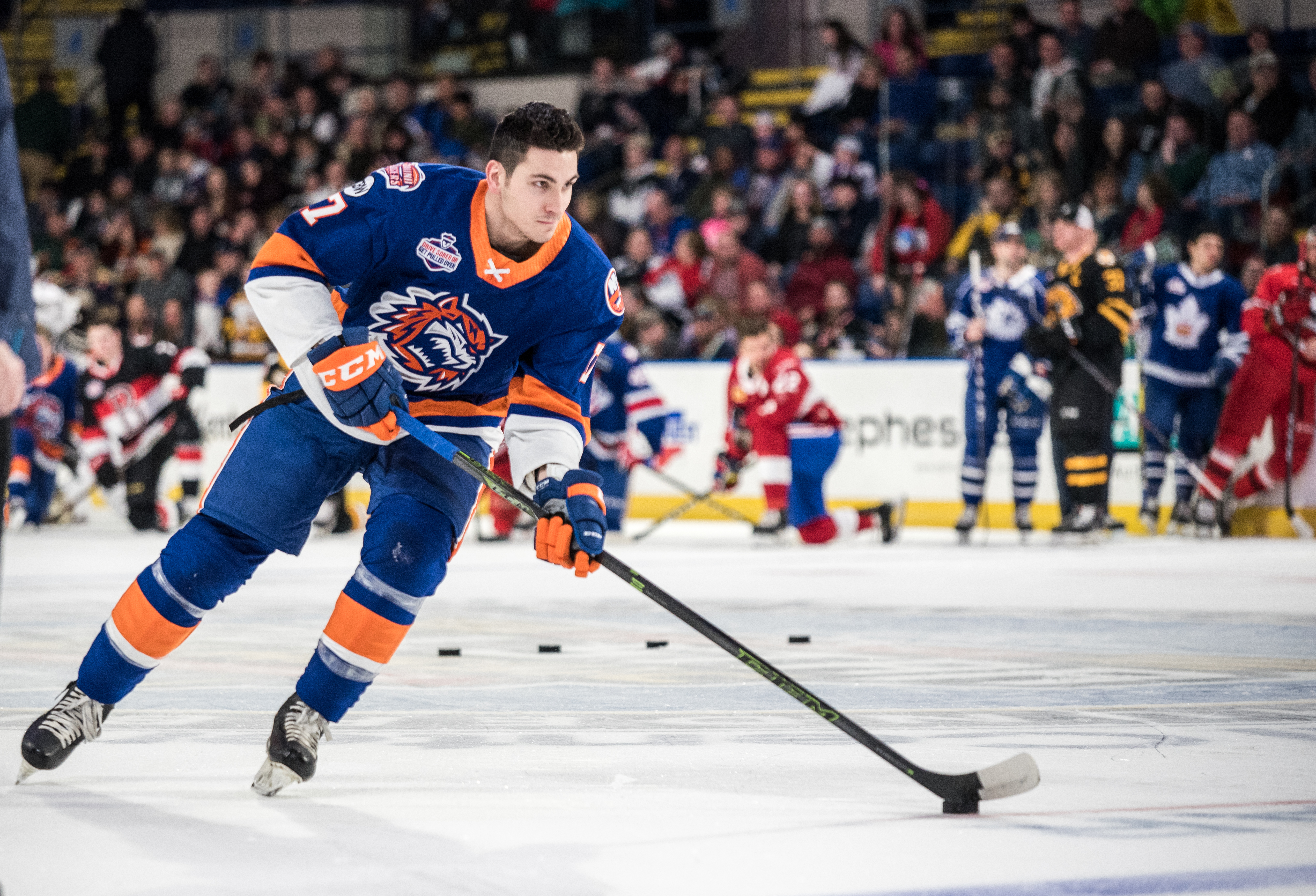 Photo by: China Wong